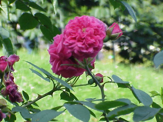 Species: Rosa sp. Family: Rosaceae Cultivar: Erinnerung an Brod, Geschwind Image No. 21